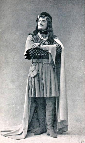 French operatic baritone Jean Périer (1869-1954) as Giorgio d'Ast in Xavier Leroux's La Reine Fiammette.